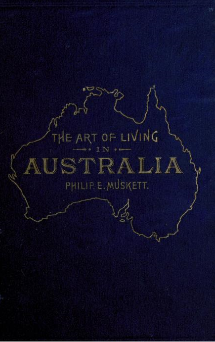 Front cover of The Art of Living in Australia, published in 1893.